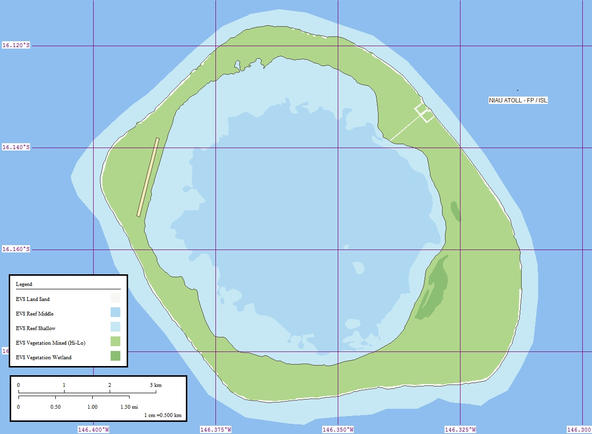 Map of Niau Atoll, Tuamotu Archipelago, French Polynesia